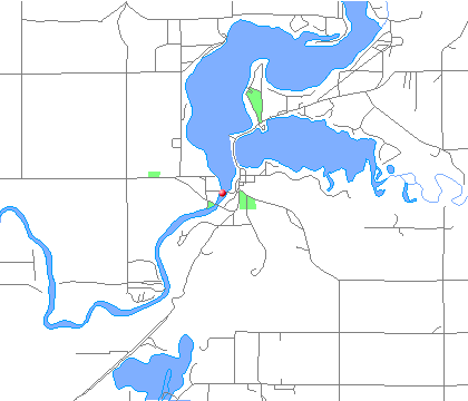 Map of the location of the Croton Dam, a dam and powerplant complex on the Muskegon River in Croton Township, Newaygo County, Michigan.